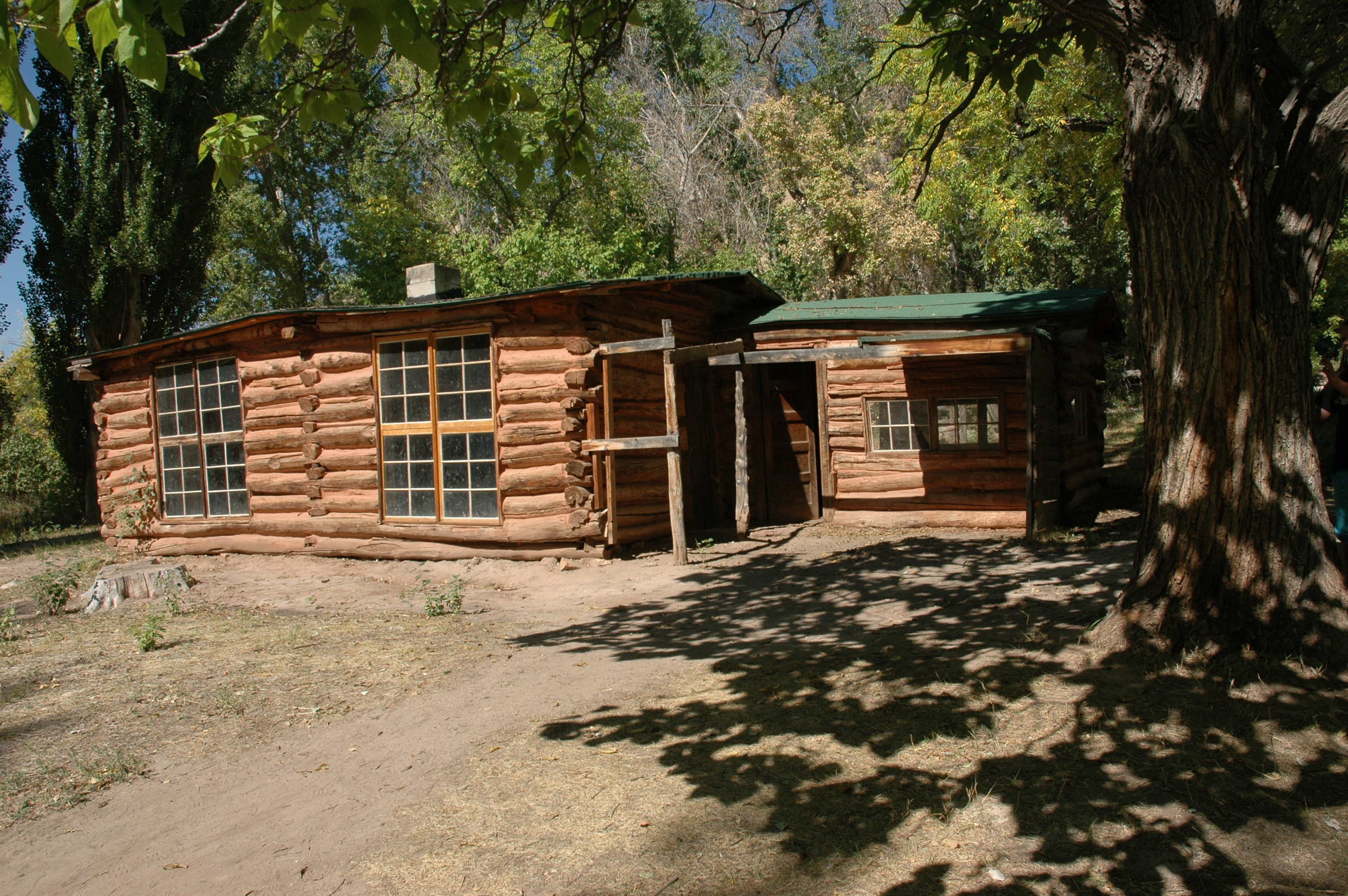 The Josie Morris Cabin, the former home of solo homesteader Josie Bassett Morris, is the center of the Josie Bassett Morris Ranch Complex, a historic district on Cub Creek in Dinosaur National Monument, Utah, United States.